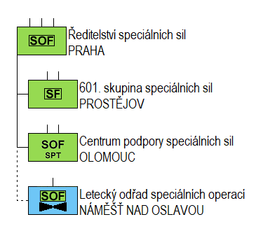 Structure of the Czech Special Forces Directorate in 2018.